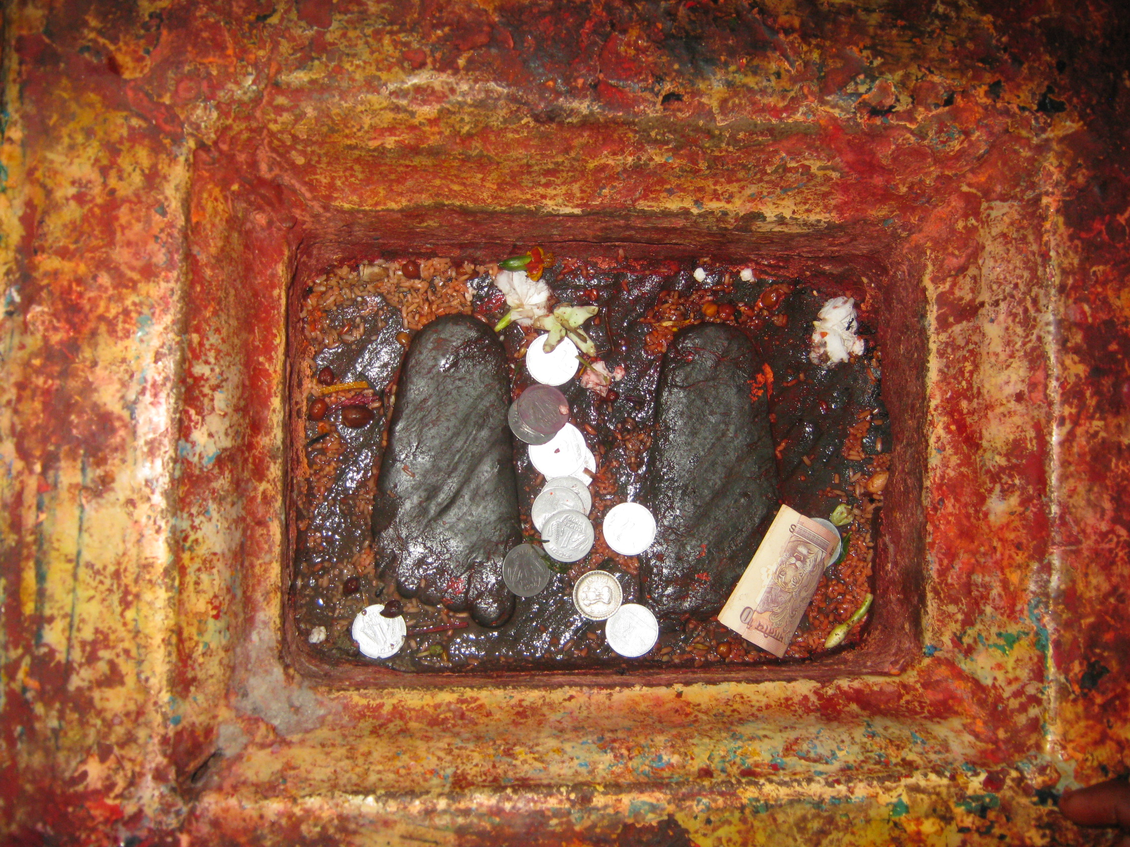 Rama Footage (Rama Charan at Ramchaura Mandir)